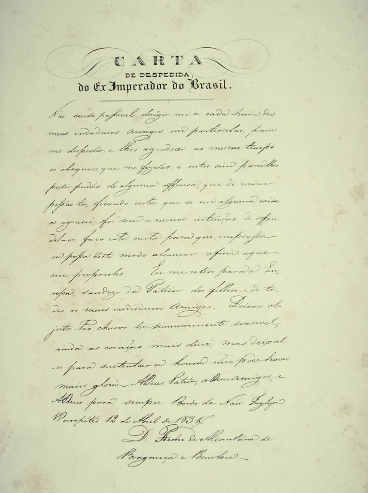 Farewell letter of Emperor Dom Pedro I of Brazil before his return to Portugal.